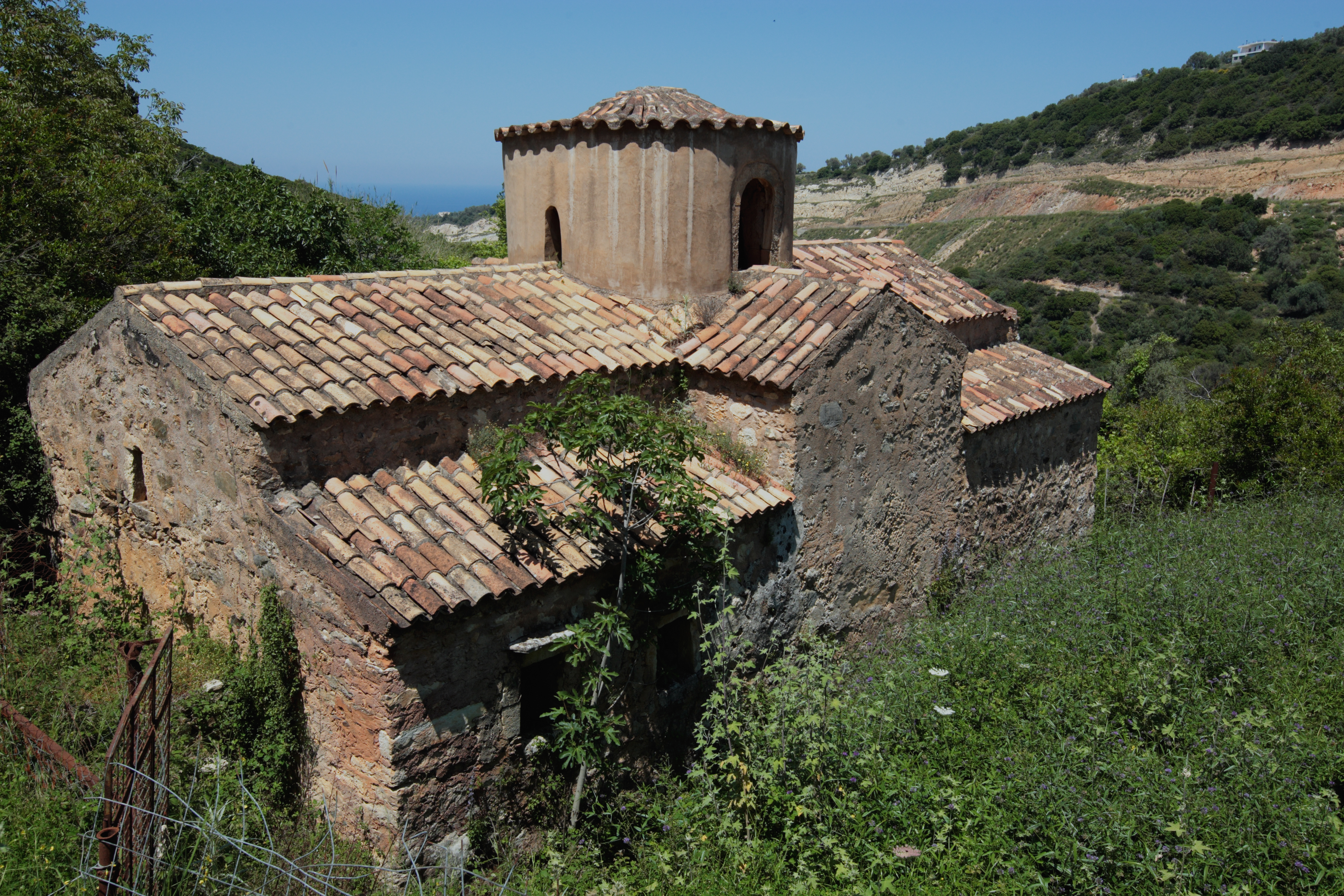 The church of Agios Eftihios, Chromonastiri Village, Crete